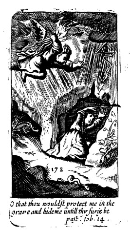 Emblem based on Hiob 14,13: man hiding. From 1736 edition of Francies Quarles' emblems